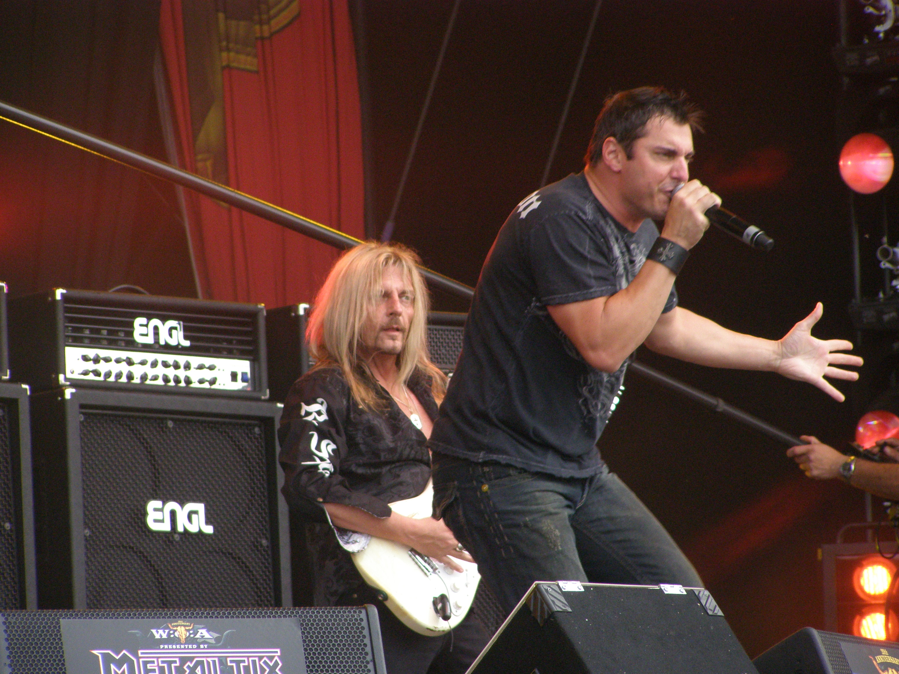 Johnny Gioeli and Axel Rudi Pell